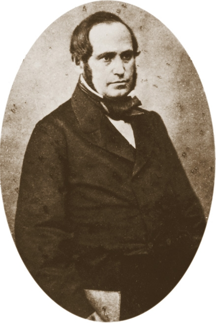 Izaak Kramsztyk (1814-1899) – reformed rabbi in Warsaw